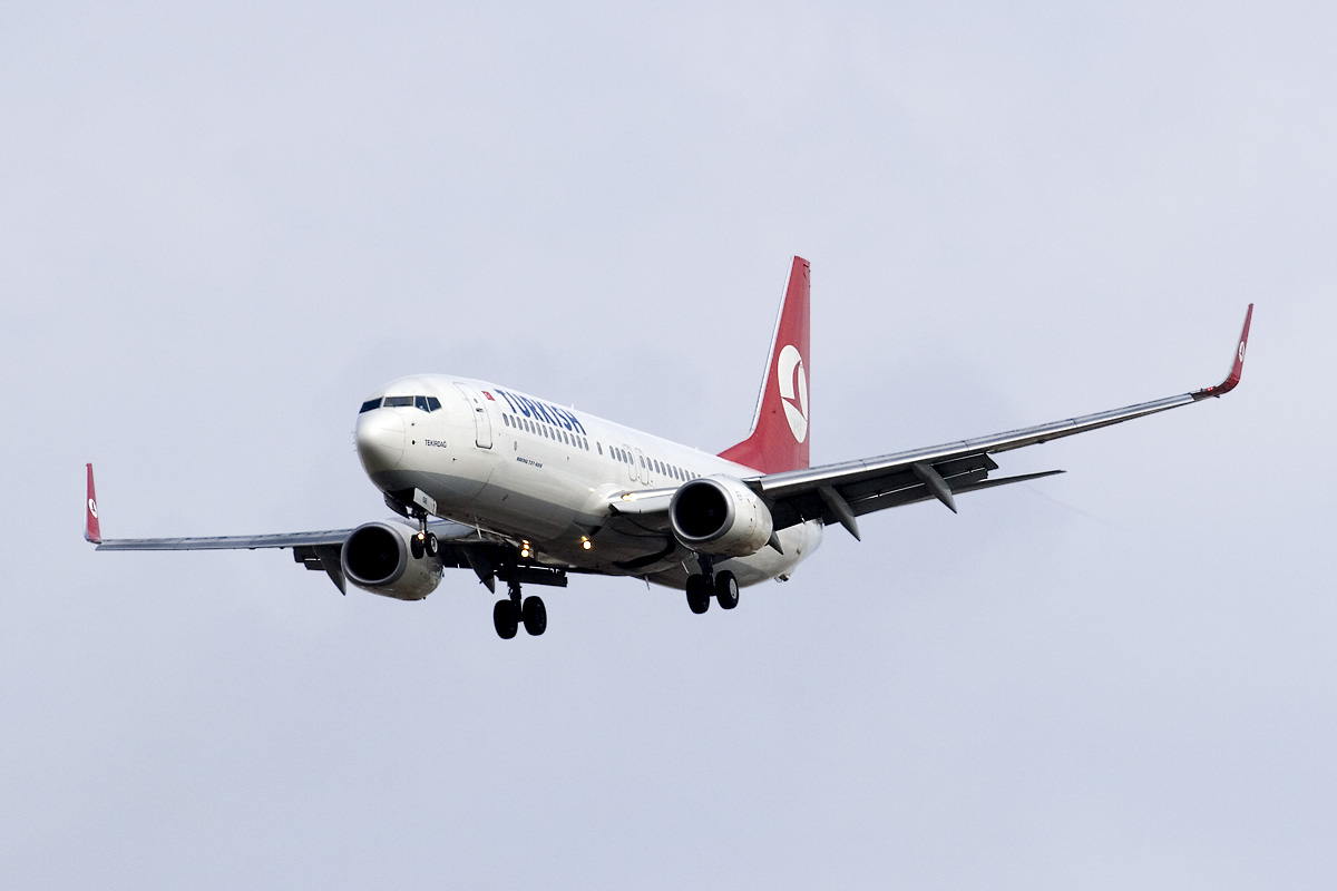 Turkish Airlines Boeing 737-800 (8F2) TC-JGE, the aircraft that crashed on Turkish Airlines Flight 1951, landing at Barcelona Airport in March 2008.